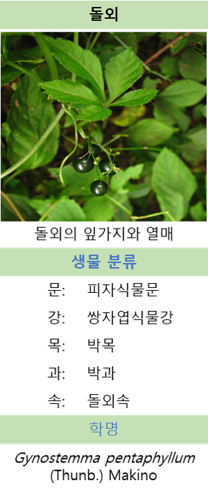 Gynostemma pentaphyllum